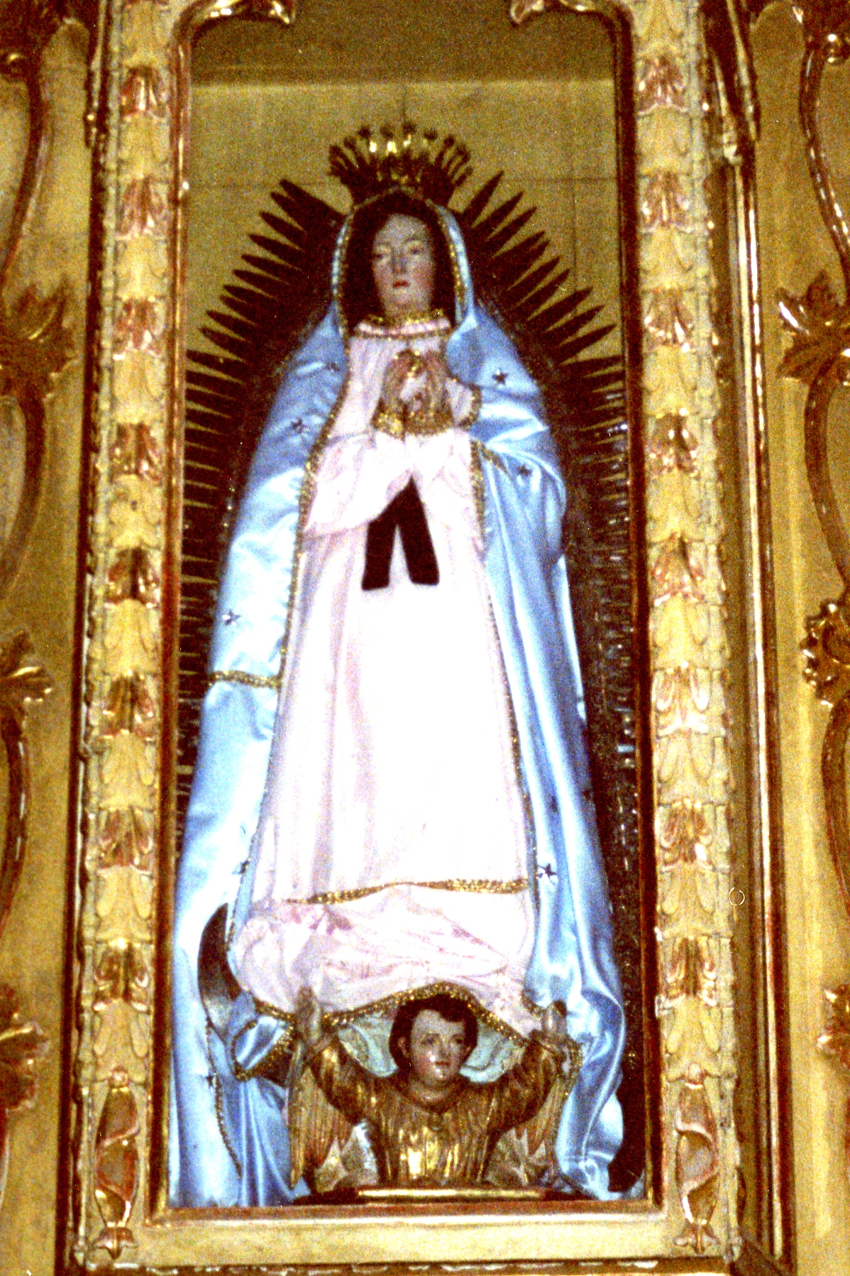 La Virgen de Guadalupe, in the Church of Santa María Asunción Tlaxiaco, Oaxaca, Mexico, in a glass case in the center of the retablo of the first altar along the left wall of the nave